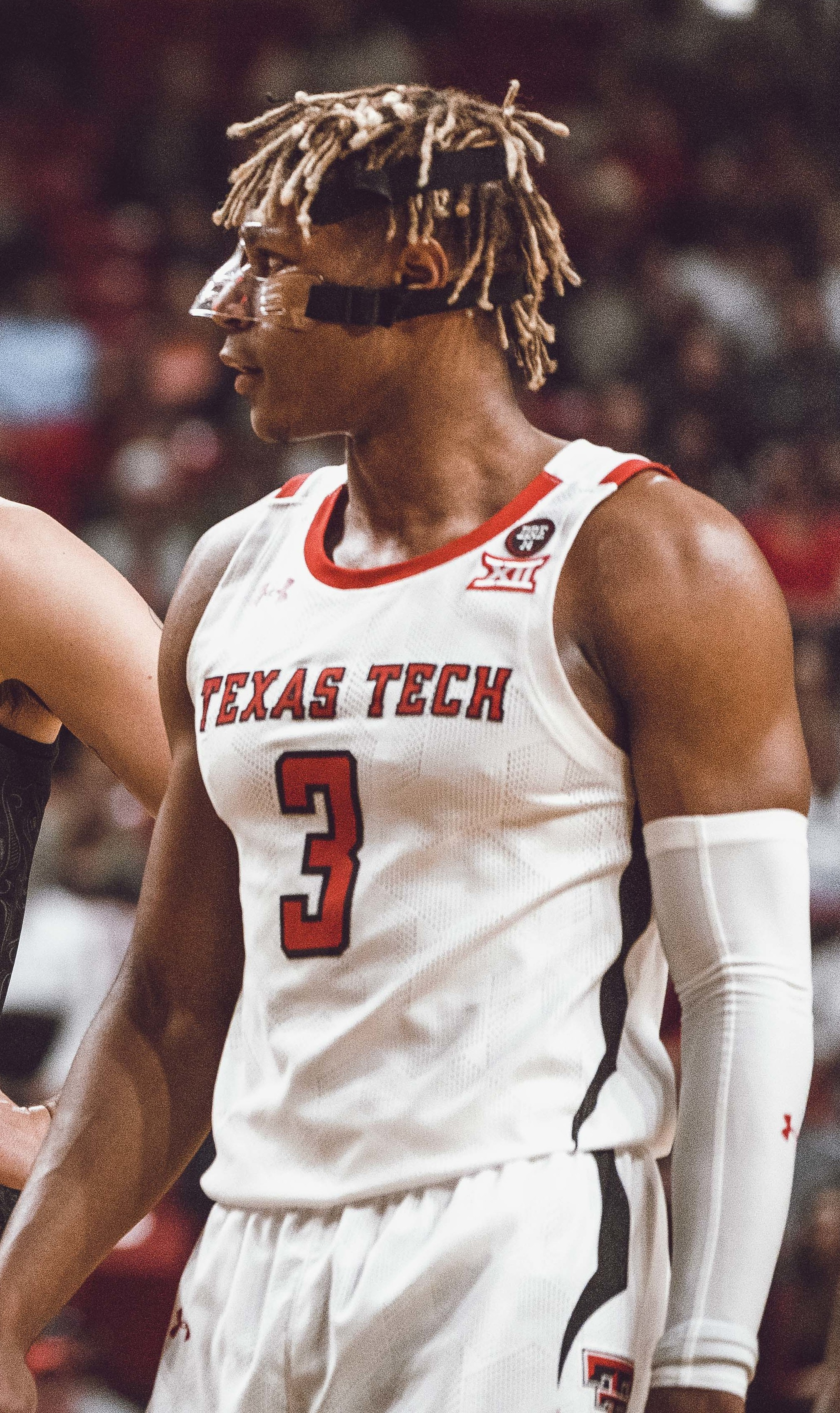 Image Taken At Oklahoma State Cowboys at Texas Tech Red Raiders Basketball Game, Saturday, January 4, 2020, United Supermarkets Arena, Texas Tech University, Lubbock, TX. Courtney Bay/OSU Athletics